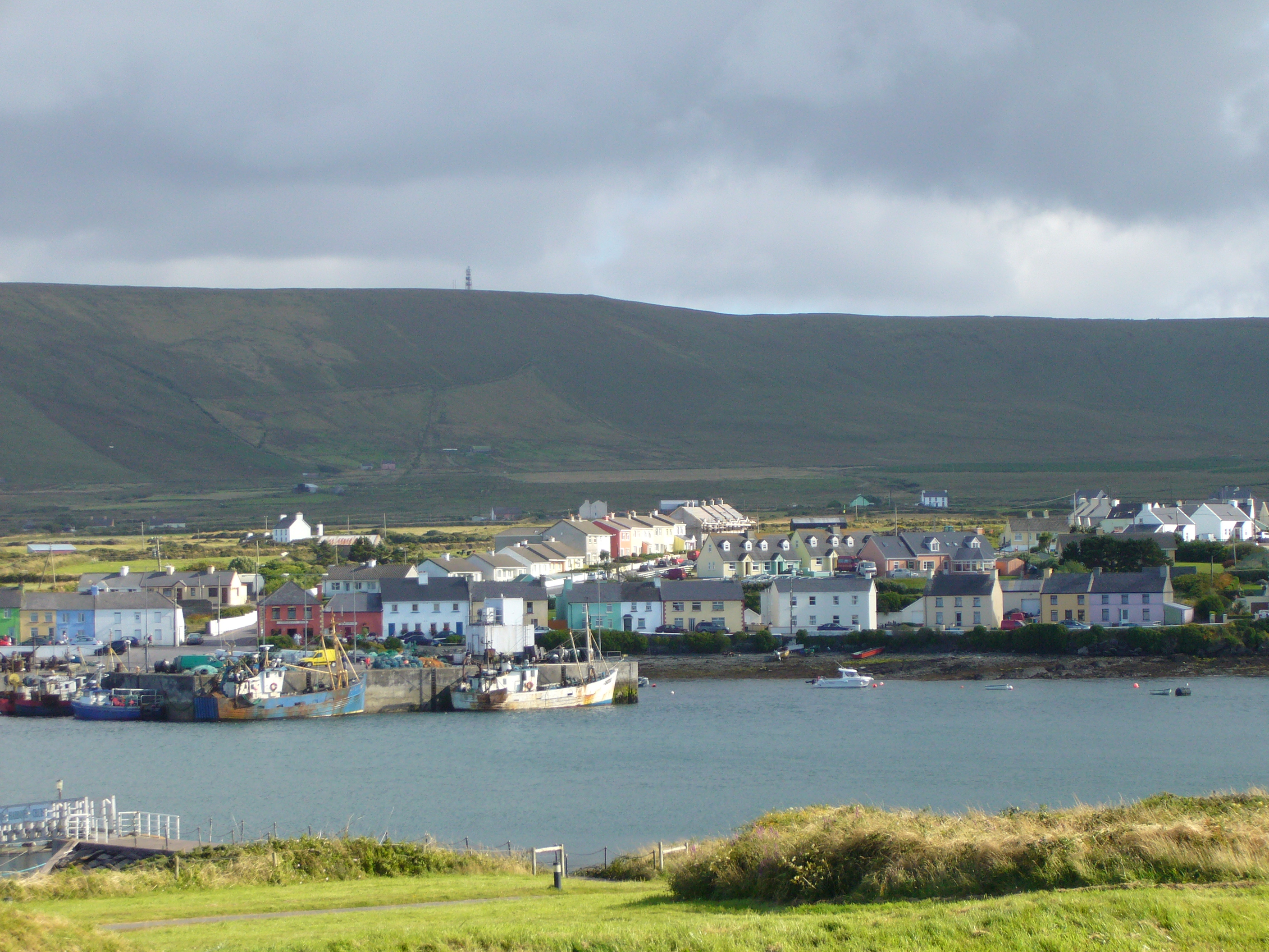 Portmagee, Kerry Co.